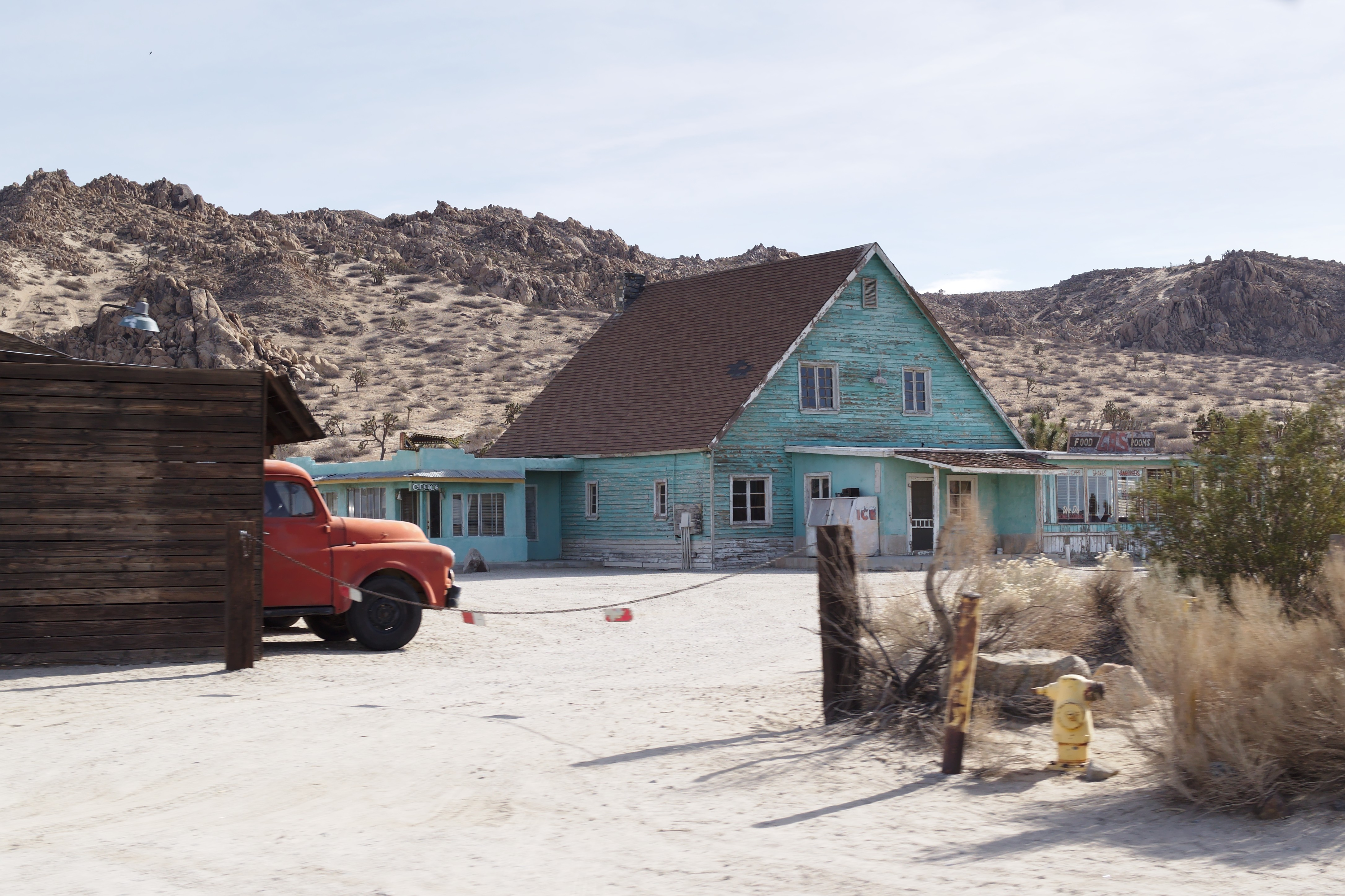 Club Ed, a popular filming location in the antelope valley, view from northwest